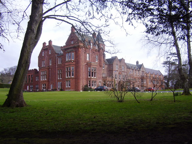 Dryburgh Abbey Hotel This magnificent hotel sits next to the ancient abbey in the Scottish Borders